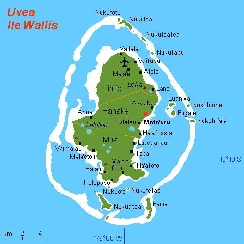 Map map Wallis Island (rough), Wallis and Futuna, own work composed from various map references